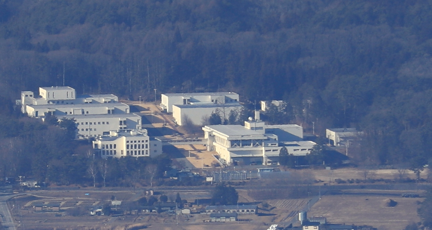 Yomeishu Seizo Komagane Plant seen from Mount Tokura in Komagane, Nagano Prefecture, Japan. Canon EOS Kiss X9